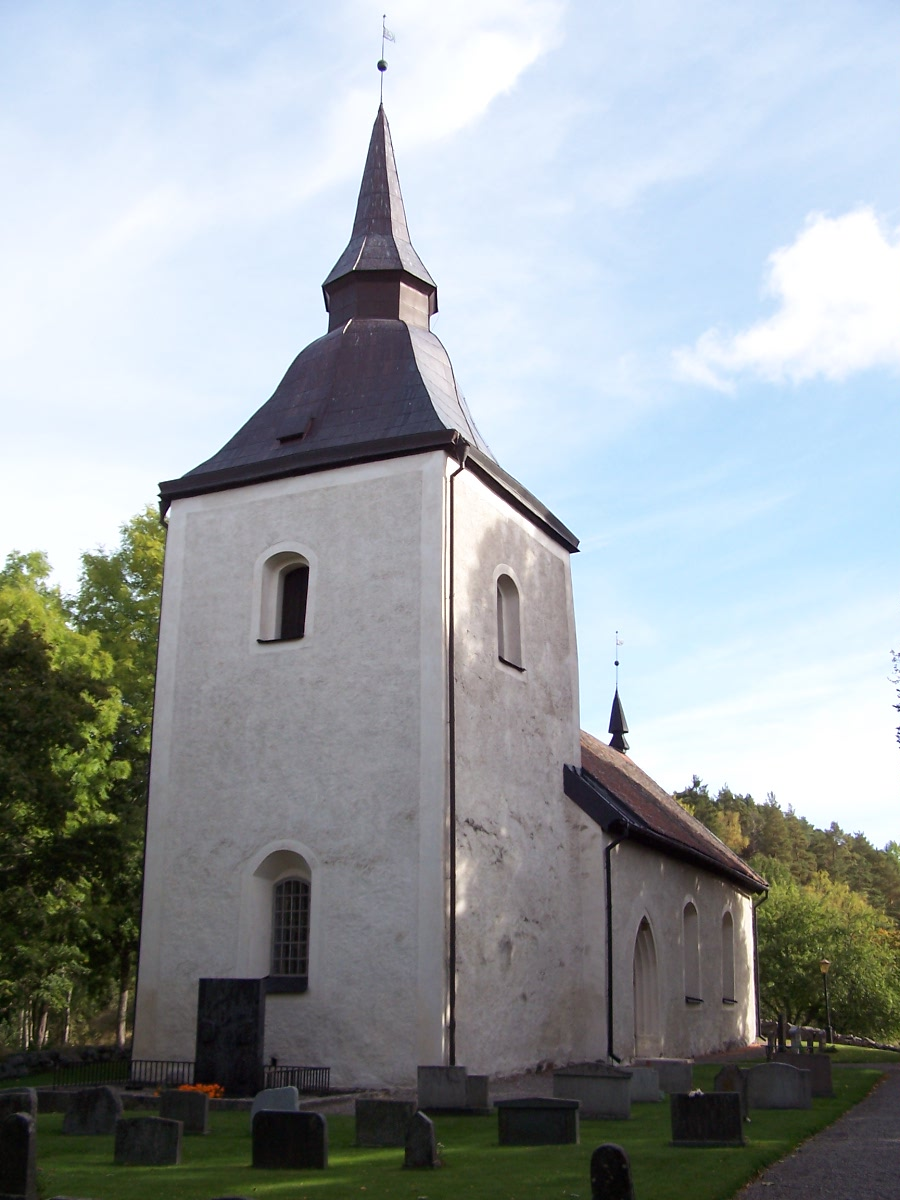 Bogsta church, Sweden